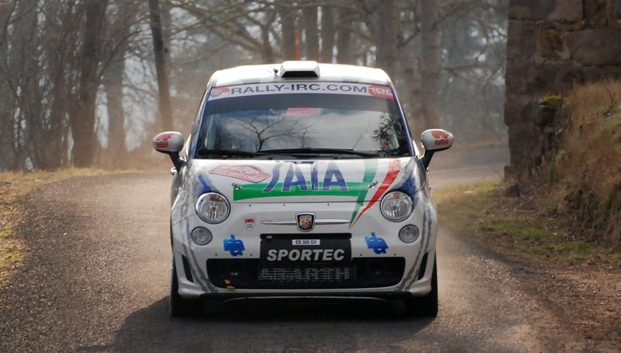 RallyCar Fiat 500 Abarth R3